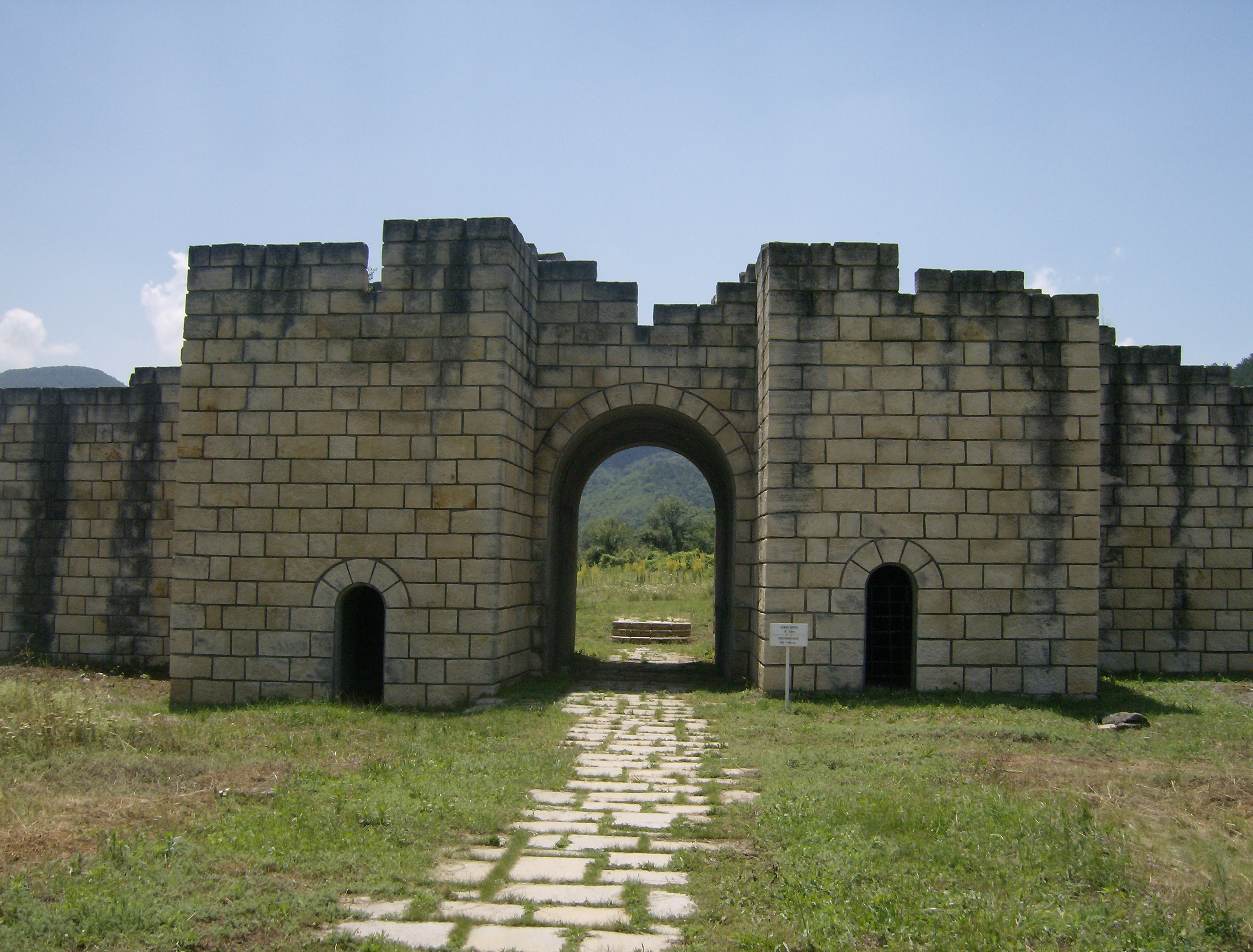 Preslav Fortress